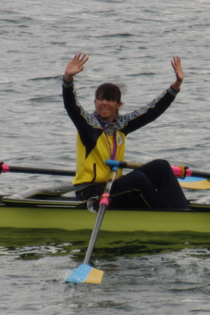 Nataliya Dovgodko, Olympic champion from Ukraine